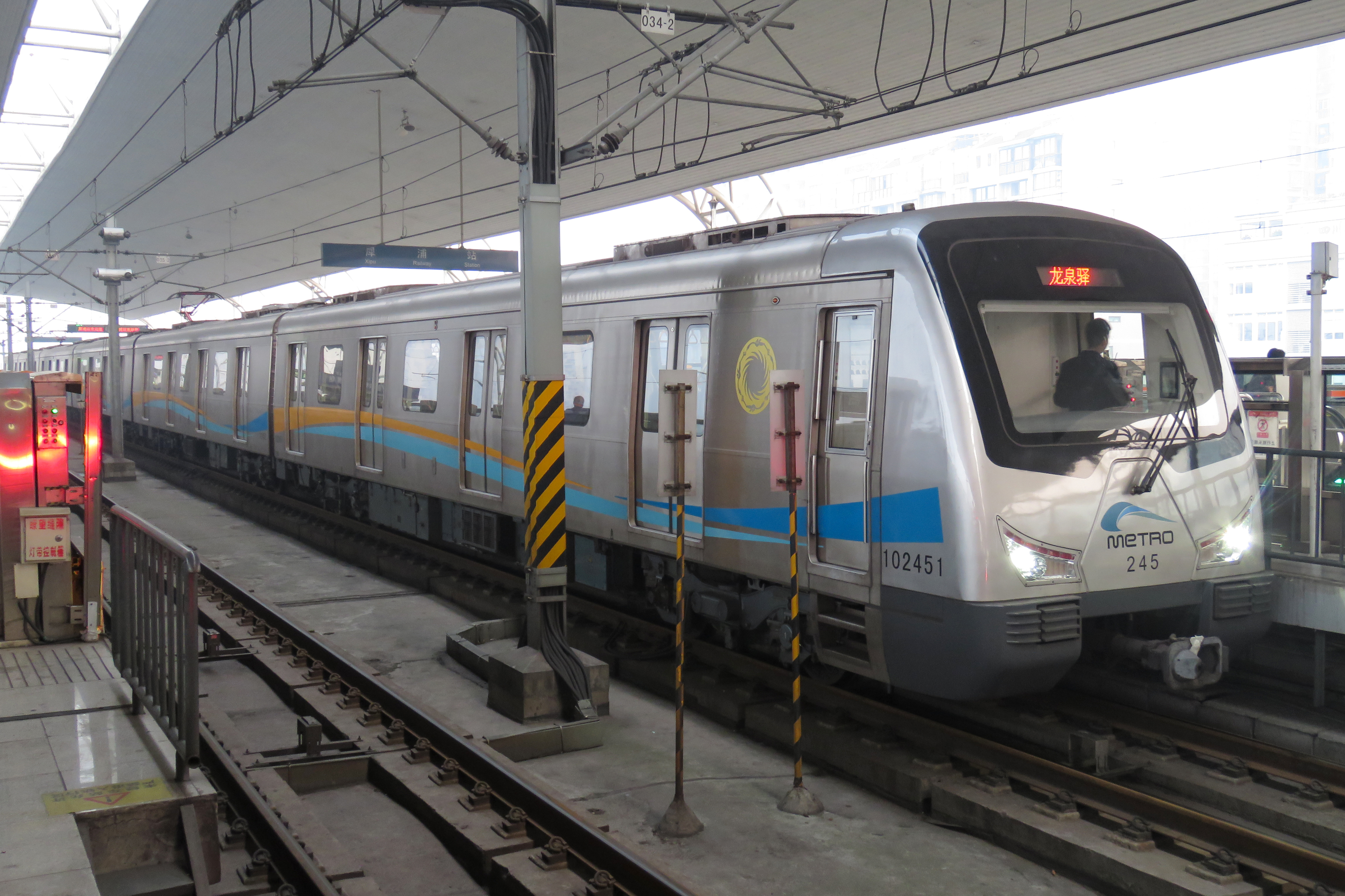 Metro uses inner tracks.